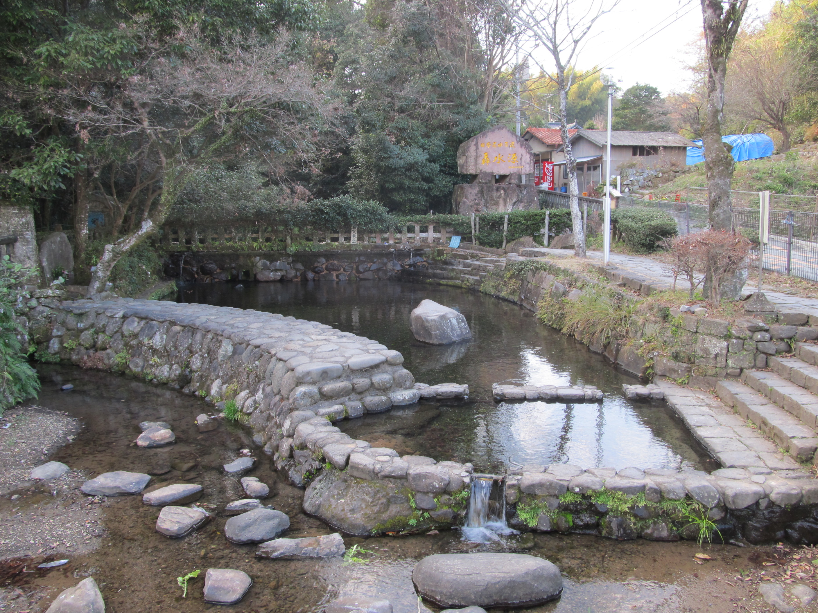 Todoroki Springs.